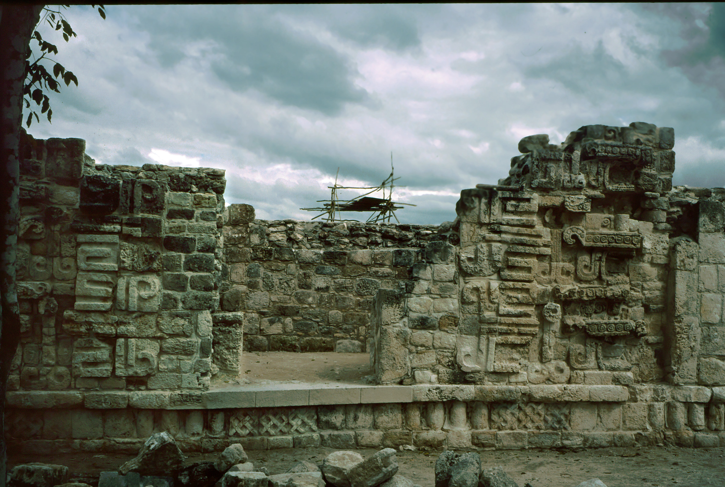 Culubá (near Tizimin),Yucatán, Mexico: building with Chenes-like façade at central entrance